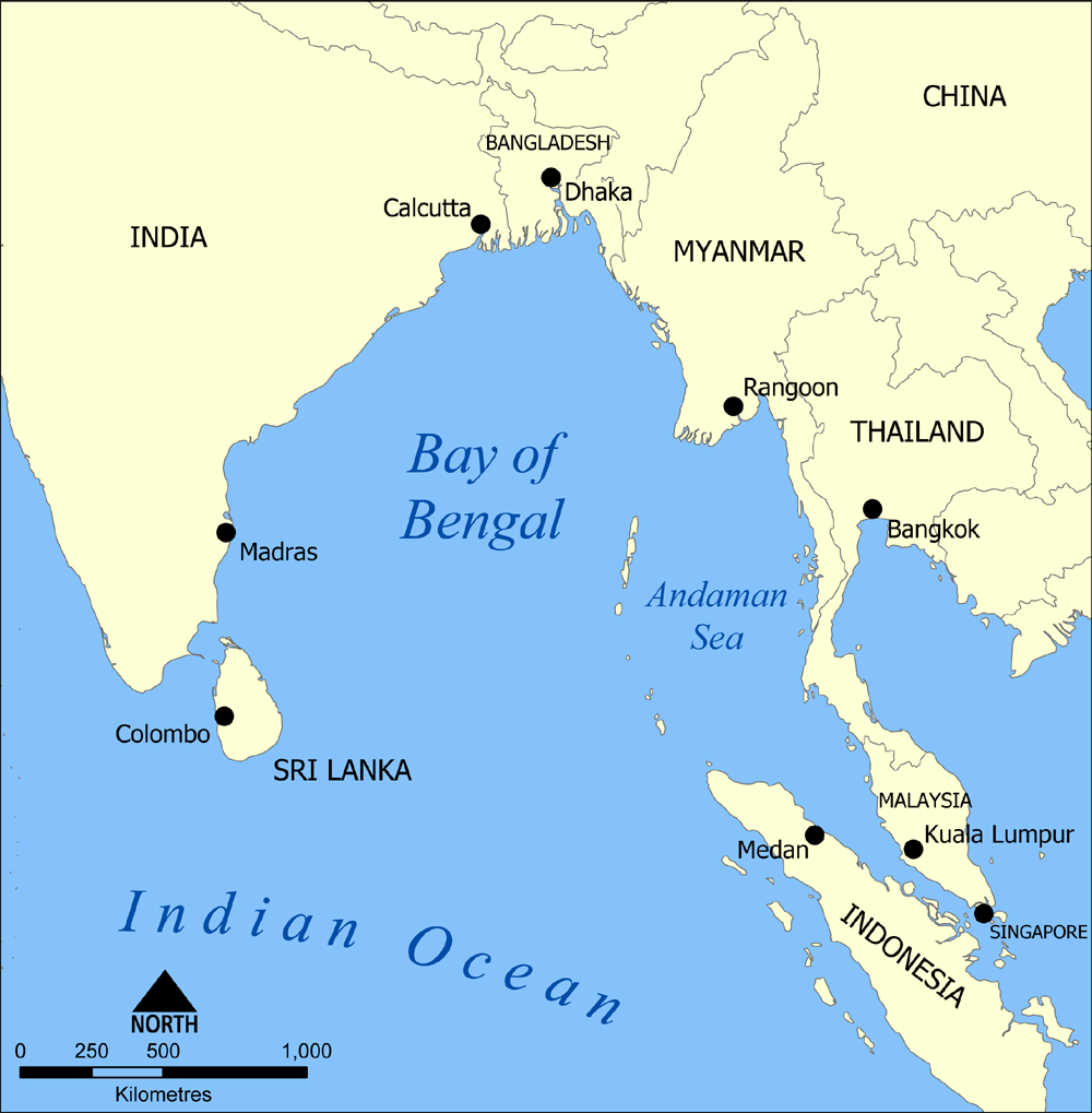 A map showing the location of the Bay of Bengal and the Andaman Sea in southeast Asia. Created by NormanEinstein, September 15, 2005.